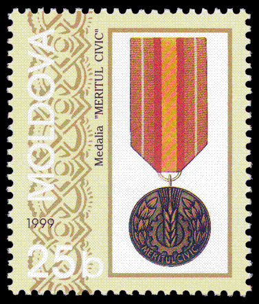 Stamp of Moldova